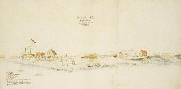 The drawing, discovered in 1991 in Vienna's Albertina museum, illustrated the text of Adriaen van der Donck’s Remonstrance and served as the prototype for the Blaeu and Visscher etchings.